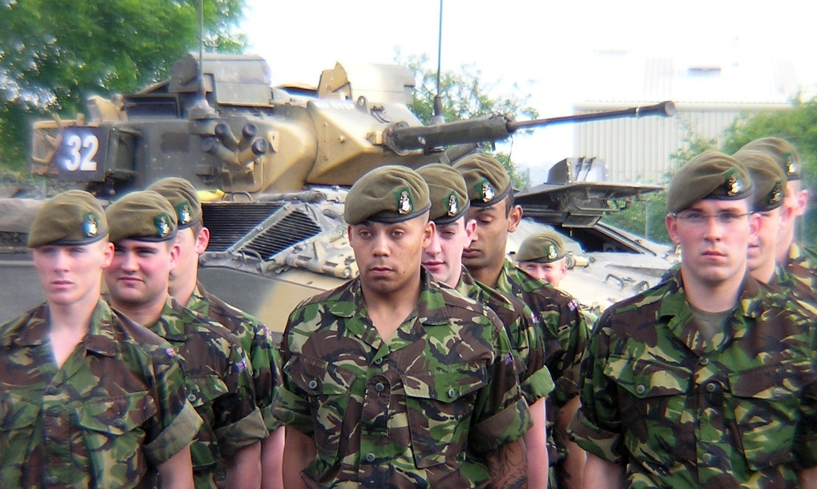 Soldiers of the 3rd Battalion The Yorkshire Regiment (Duke of Wellingtons), Taken on the Regiments formation day at Battlesbury Barracks, Warminster.